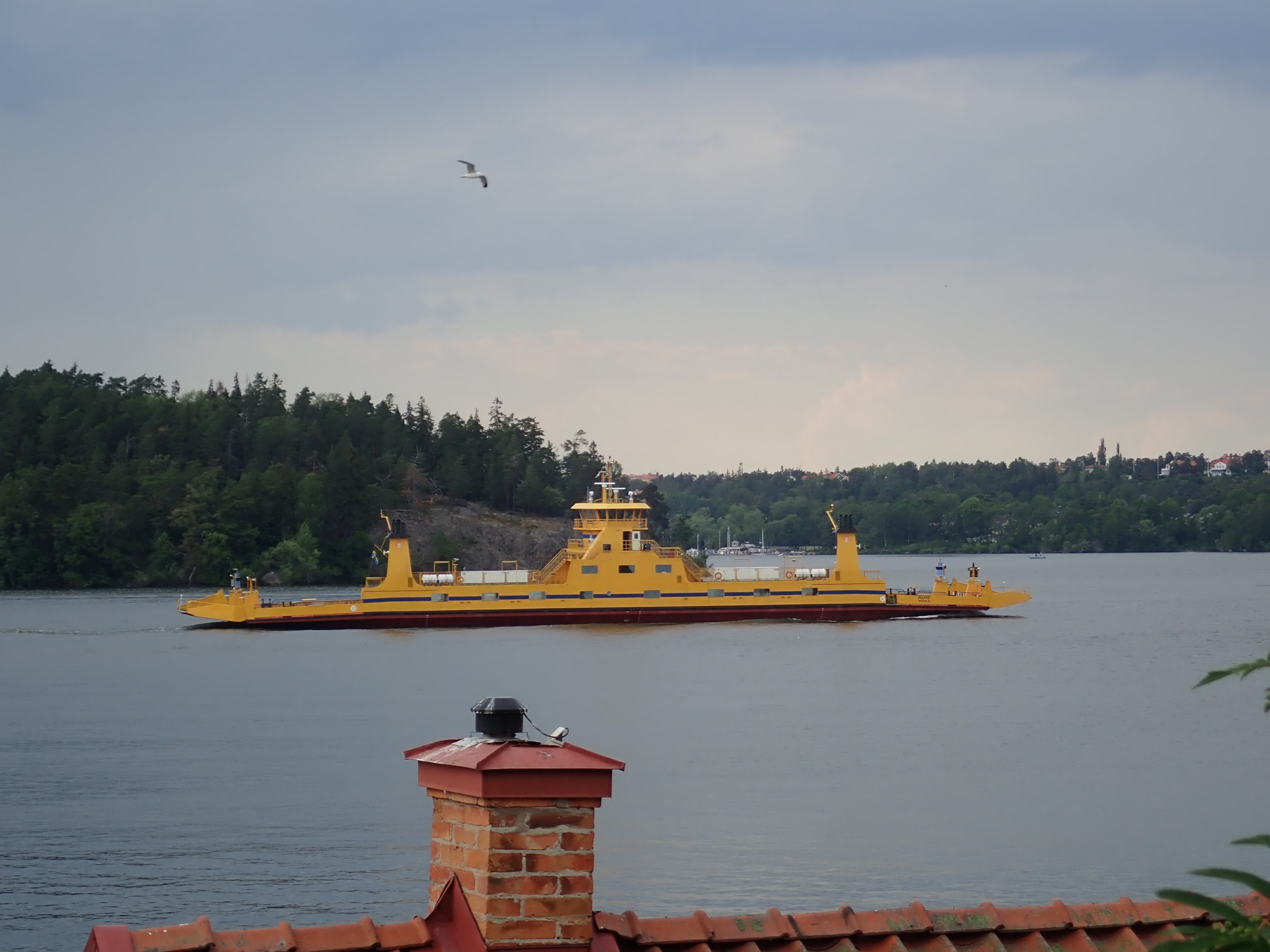 M/S Pluto in front of Björnholmen (Ekerö) island in the lake Mälaren, photographed from Pettersbergsvägen in Mälarhöjden, Wednesday, June 16, 2019.